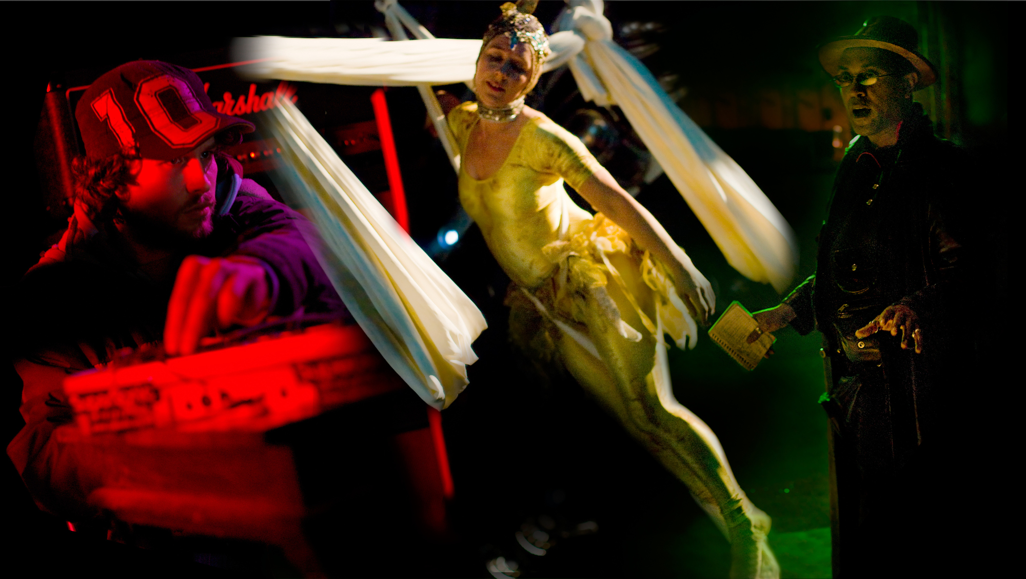 Compostite image compiled by Matt Murtagh from photos he took at the second Project X Presents event at the Rainbow Warehouse.